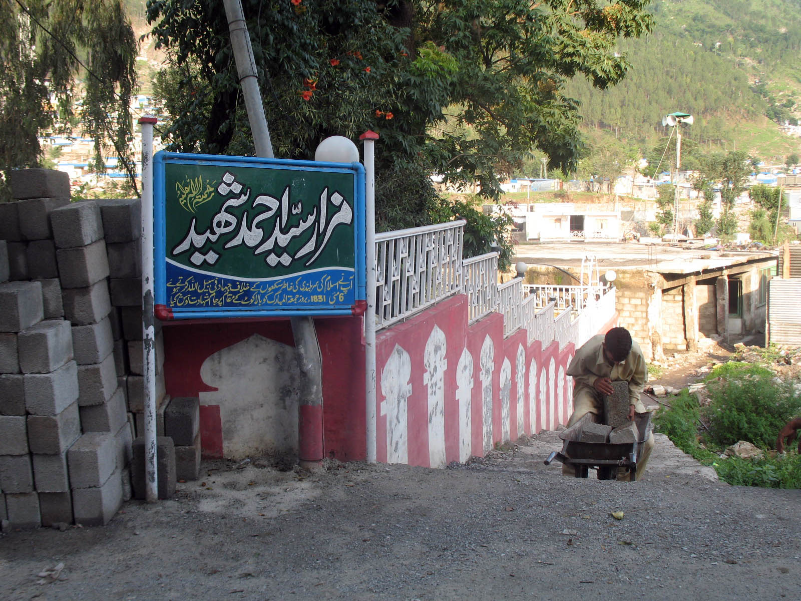 Tomb of Hazrat Shaheed Ahmad Maujadid Baralvi This is a photo of a monument in Pakistan identified as the KPK-28